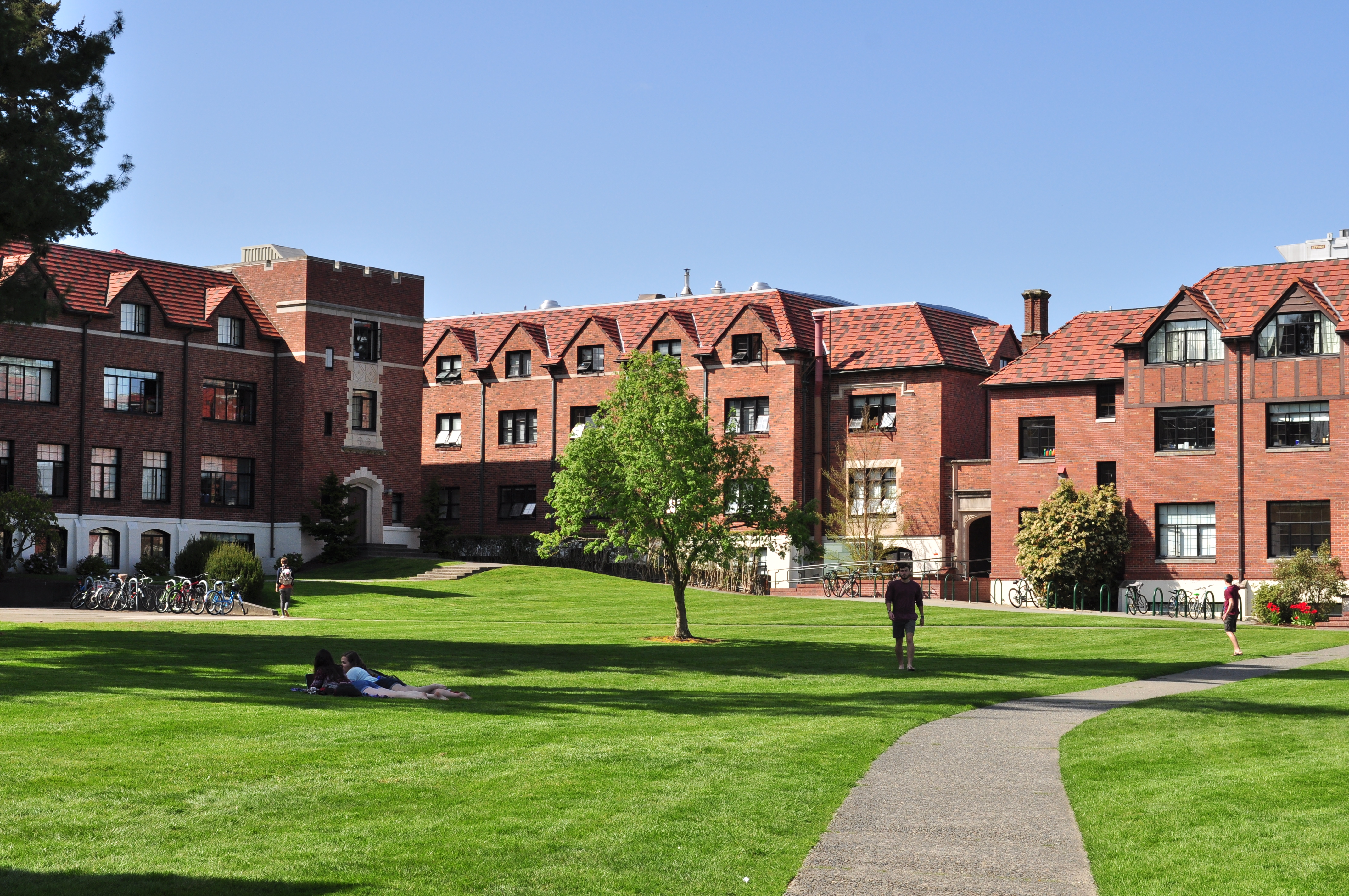 Langdon, Harrington, & Schiff Halls, University of Puget Sound, Tacoma, Washington.